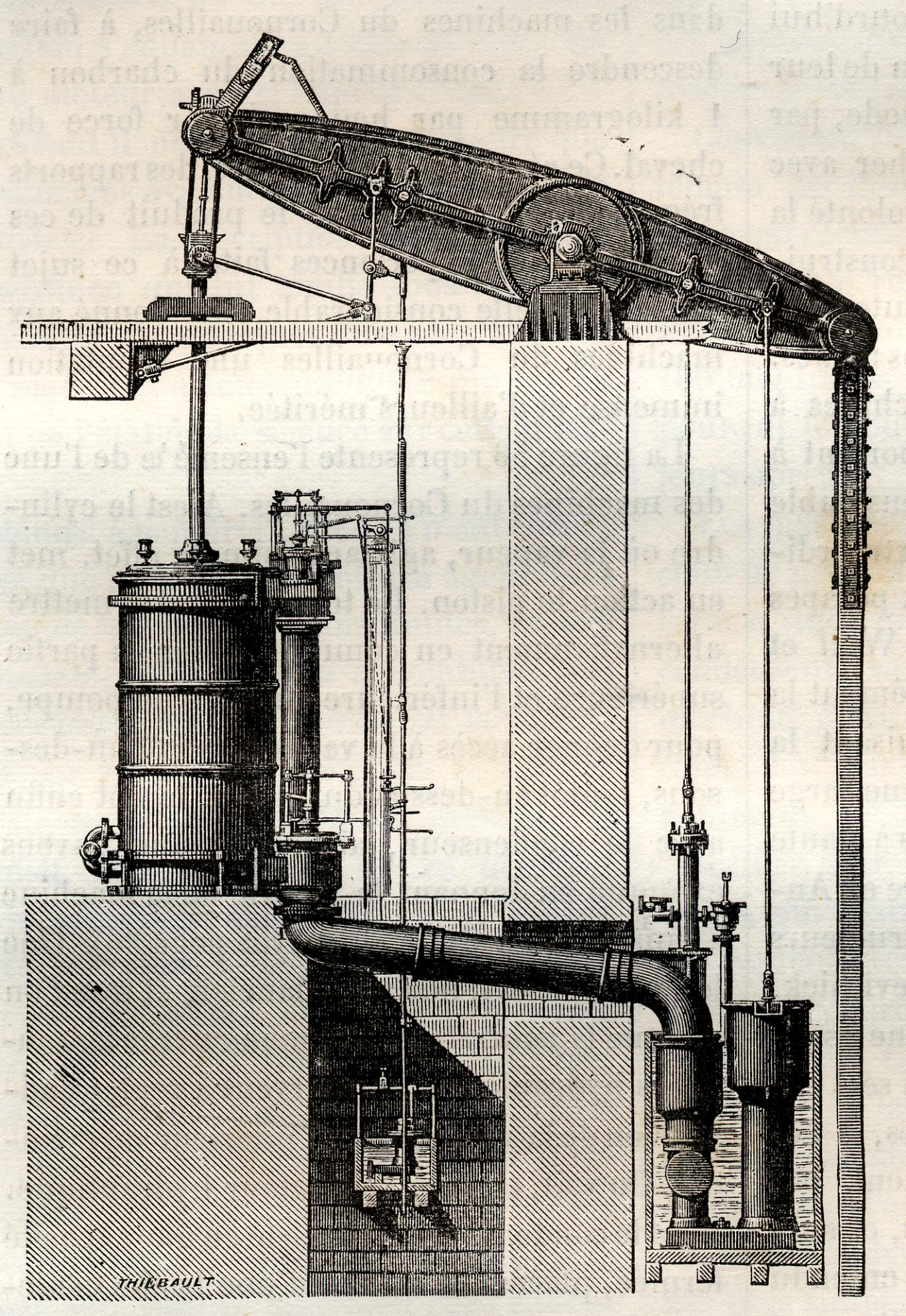 Figuer, Louis "Merveilles de la science" Furne Jouvet et Cie, Paris 1868.